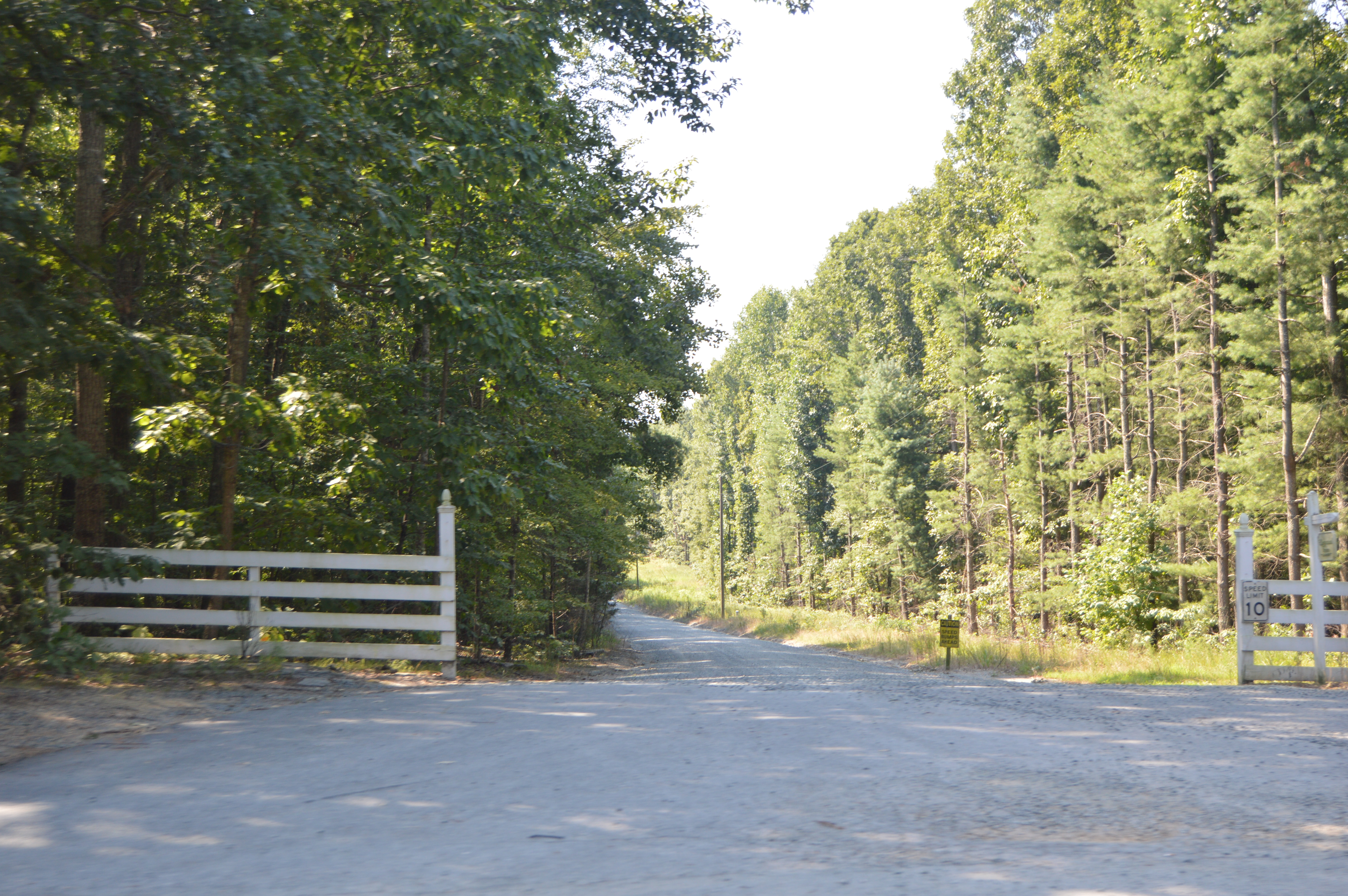 Entrance to the Longwood estate, located off State Route 22 south of Gordonsville in Louisa County, Virginia, United States. The estate is listed on the National Register of Historic Places.